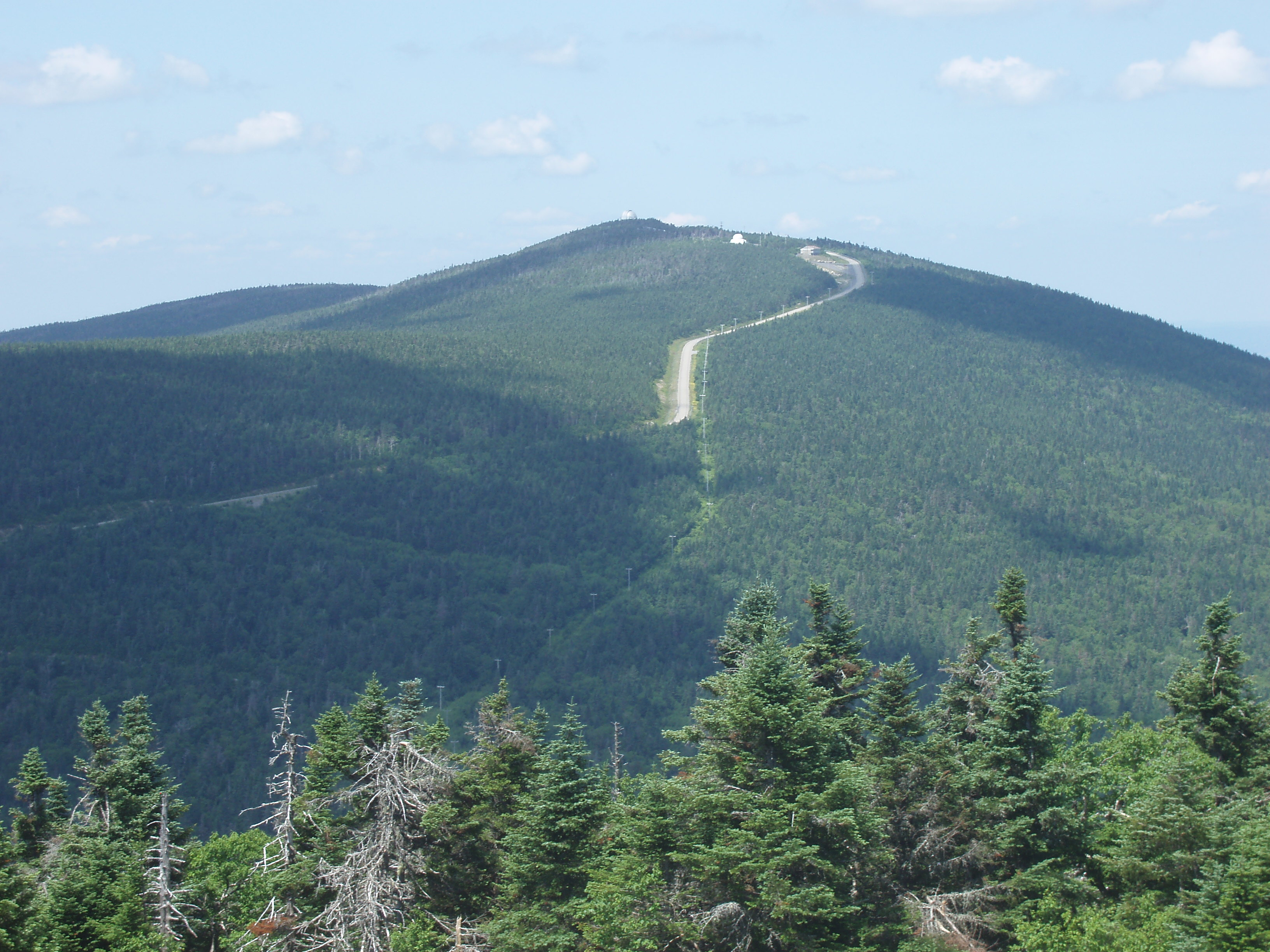 Mont Mégantic (Quebec) from the Mont-Saint-Joseph